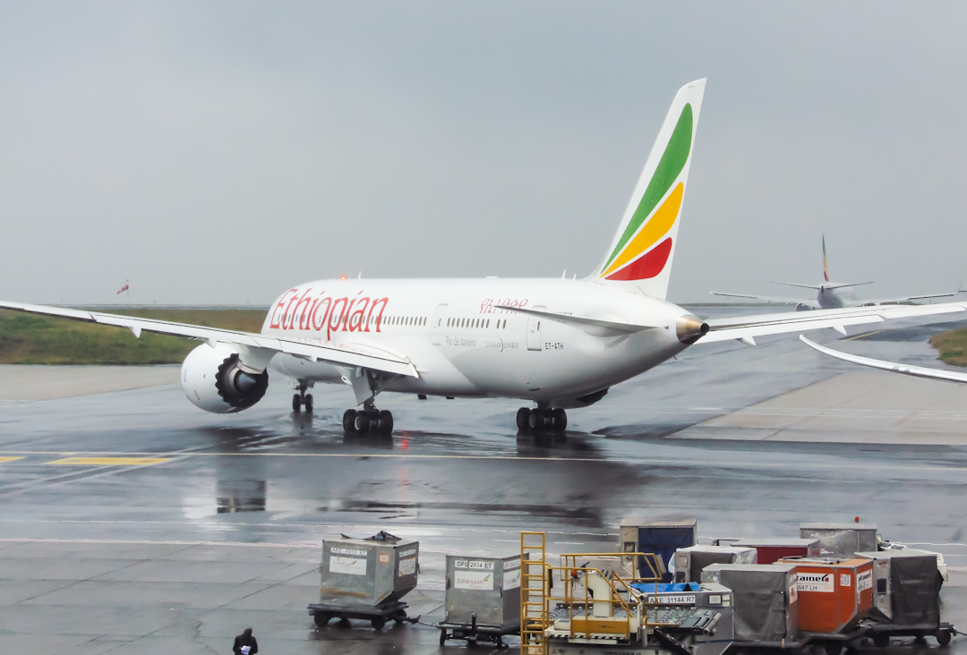 An Ethiopian Airlines Boeing 787 taxiing at Addis Ababa Bole international Airport.